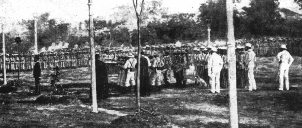 Photo of José Rizal's execution (1896). Tagalog: Larawan ng pagbaril kay José Rizal (1896).